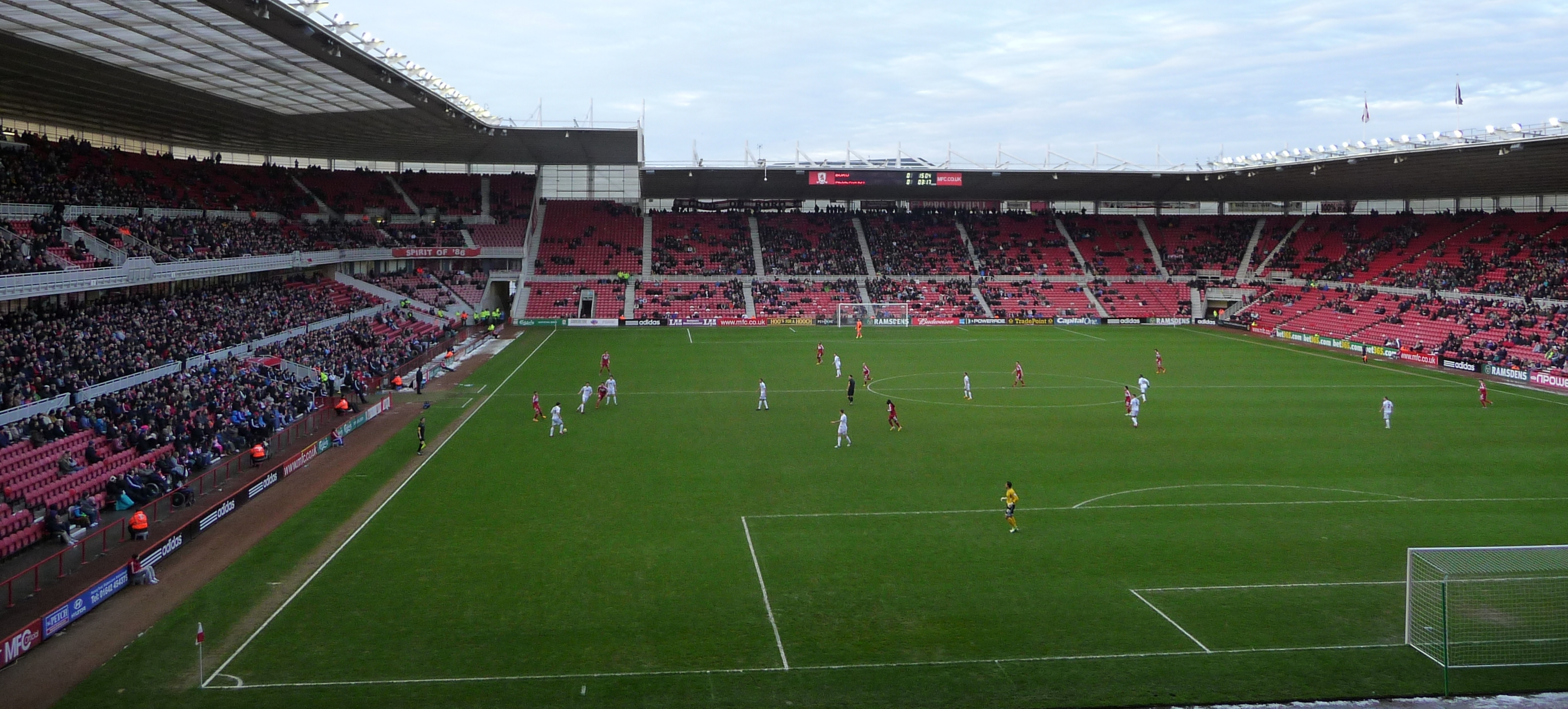 Middlesbrough 2 Aldershot 1 (FA Cup R4, Jan 2013).